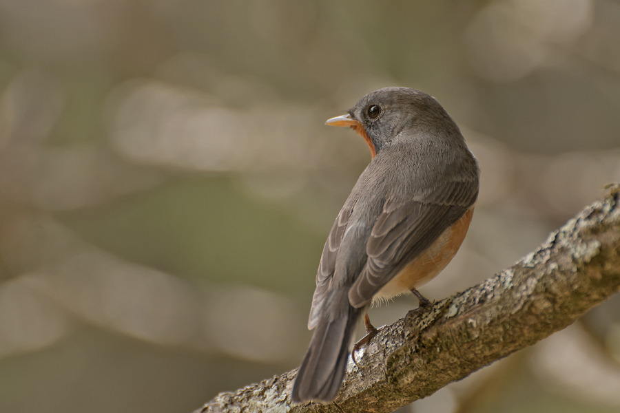 Kashmiri Flycatcher, Ooty,Tamil Nadu India